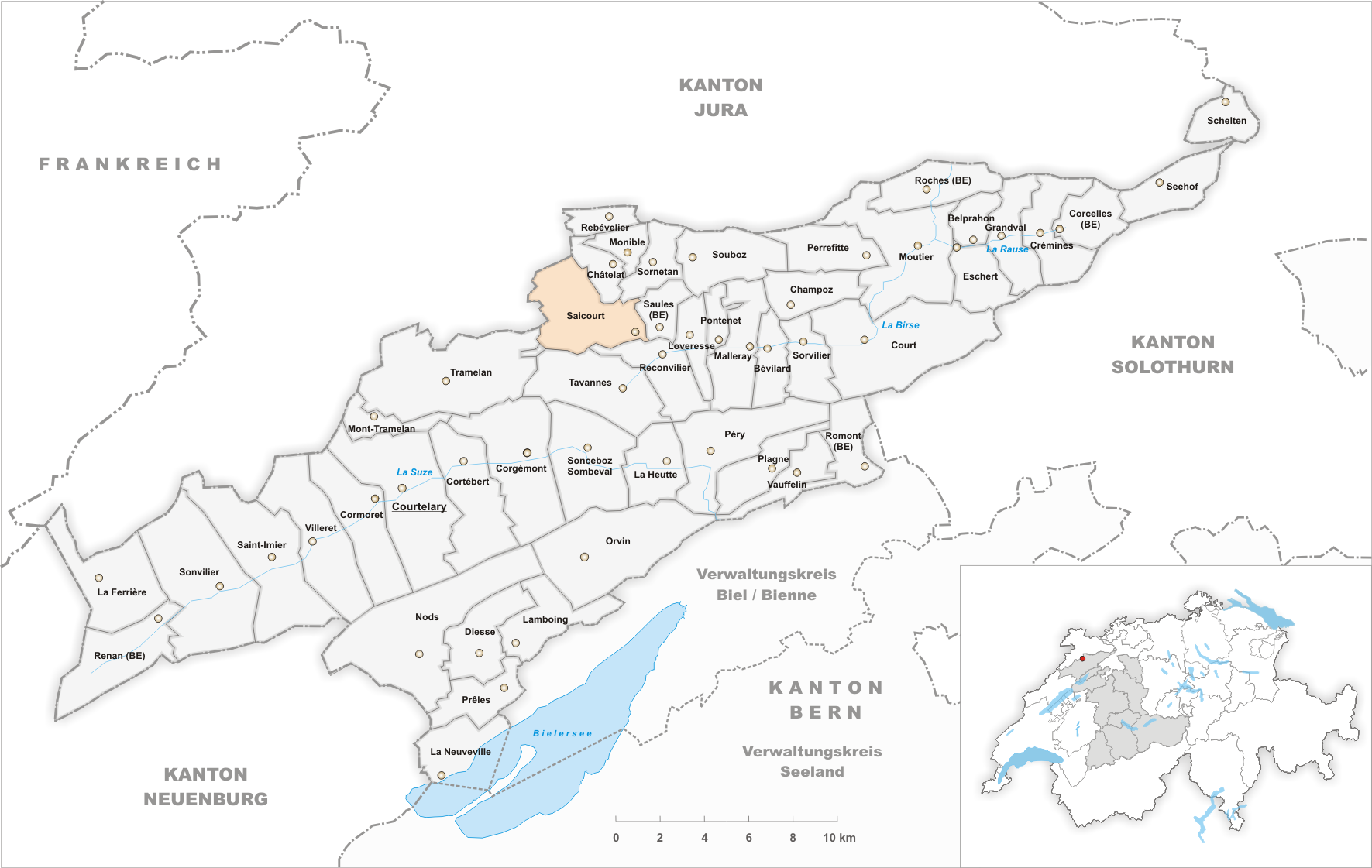 Municipality Saicourt